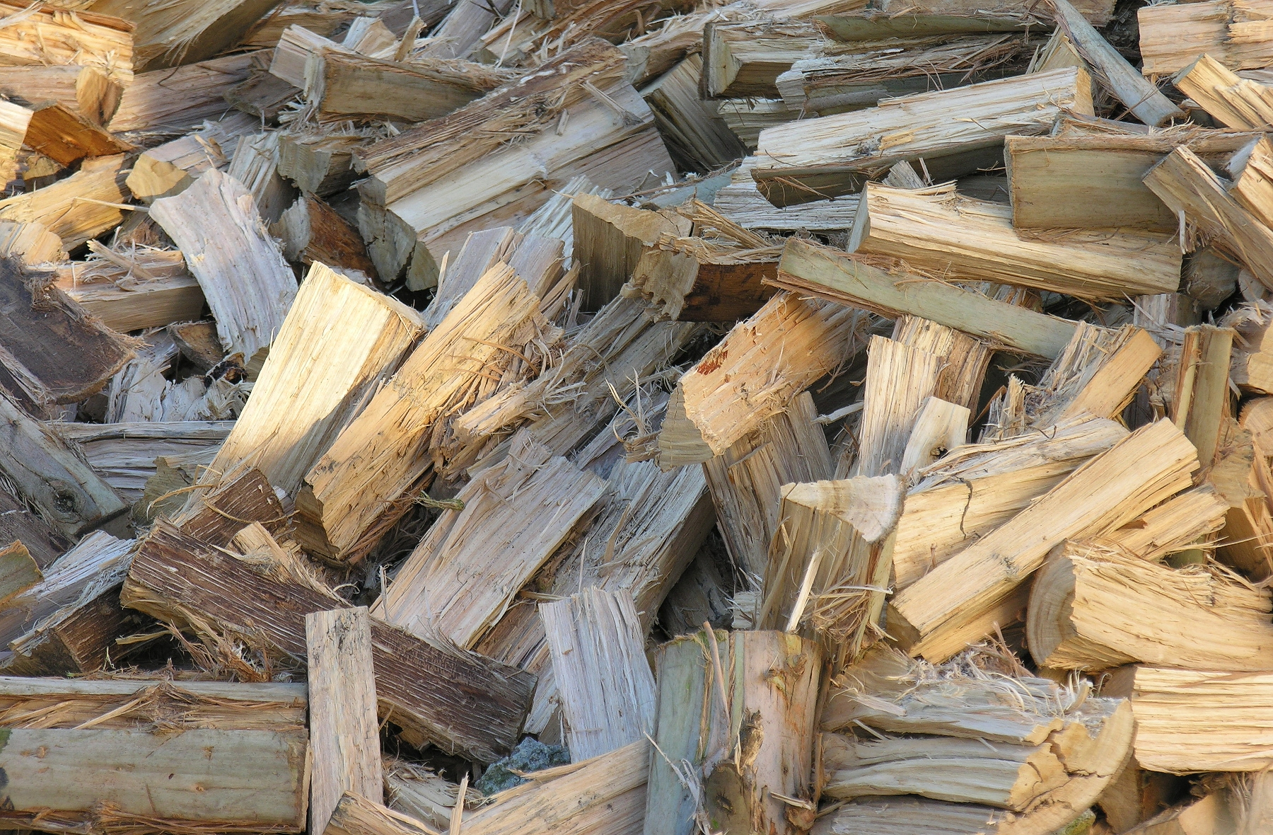 Firewood